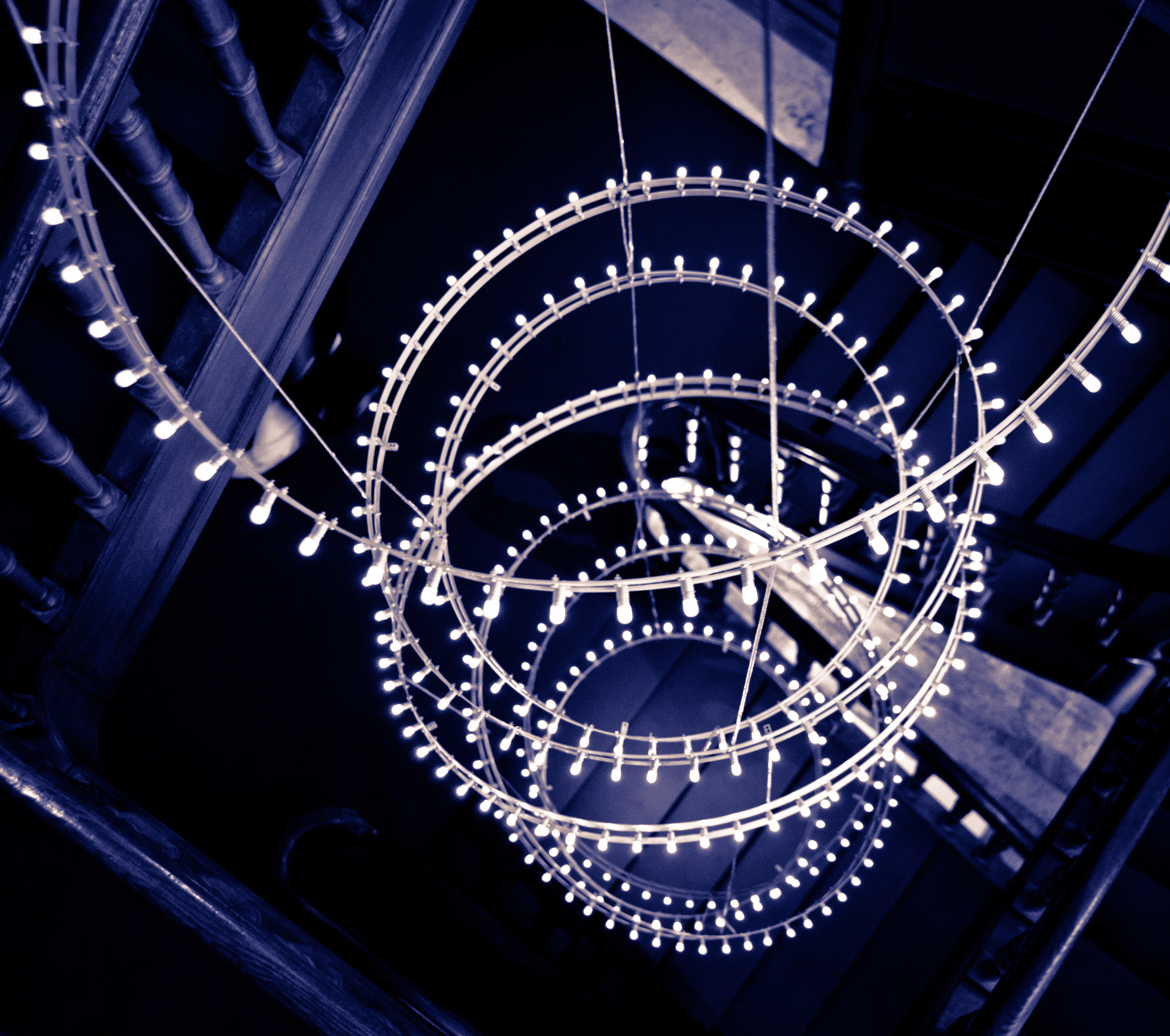 Museum of Bags and Purses, Amsterdam